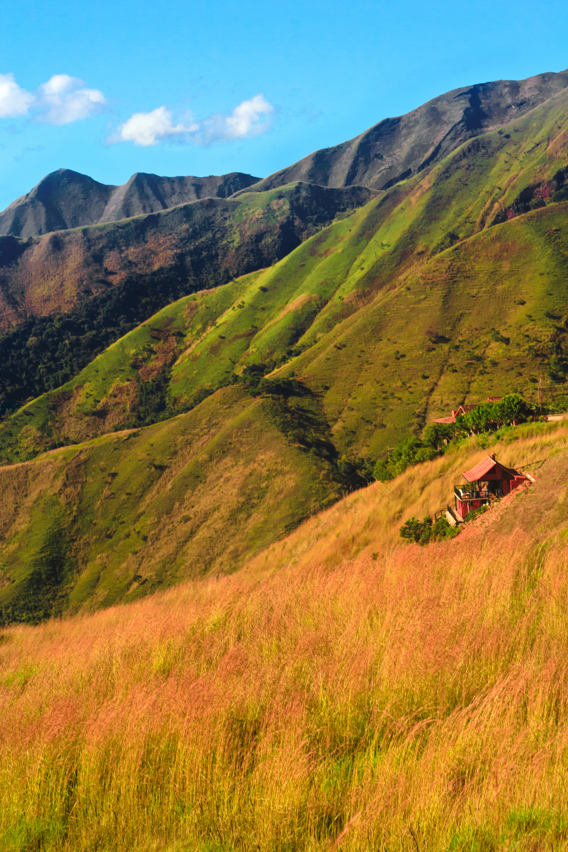 Chalets on the banks of mountain trails that cover and precede the entrance to the Colonia Tovar.